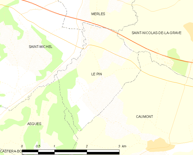 Map of French municipality Le Pin